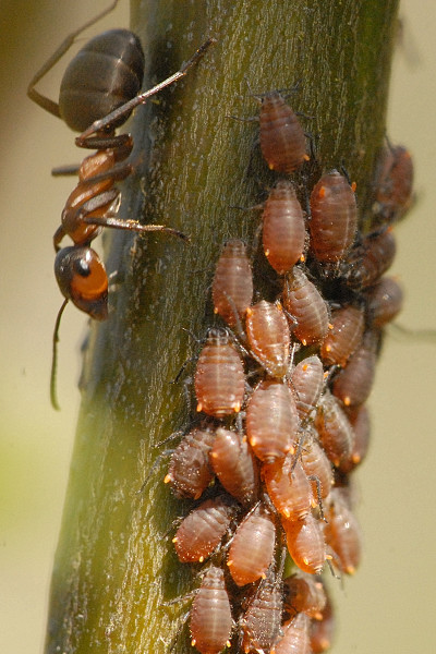 Aphis farinosa from Commanster, Belgian High Ardennes .